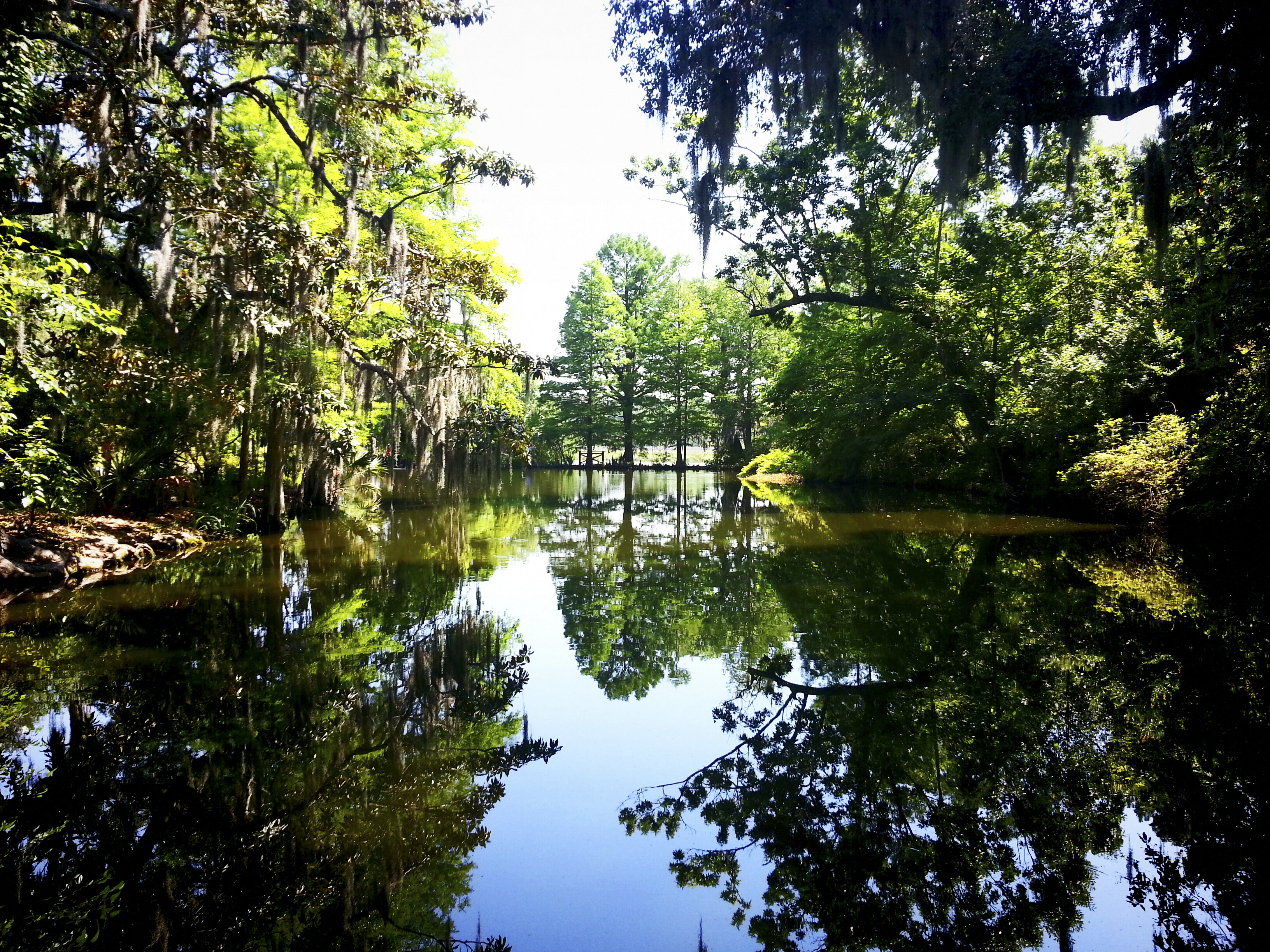 The still and mirrorlike reflecting pool flanked by cooling pines and other tall, shady trees along the walks of the formal gardens of Magnolia Plantation and Gardens.